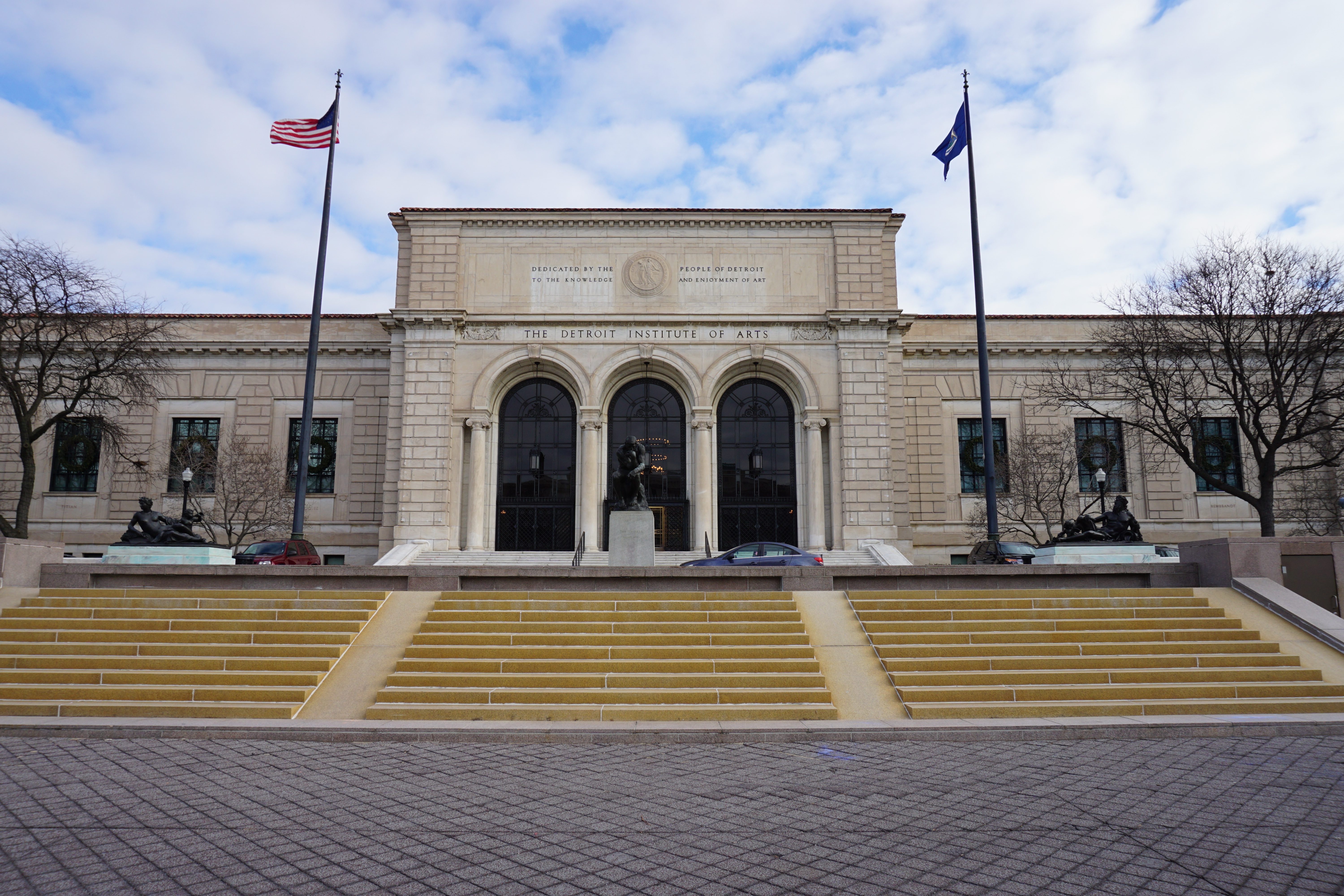 The exterior of the (main) Woodward Entrance at the Detroit Institute of Arts in Detroit, Michigan (United States).